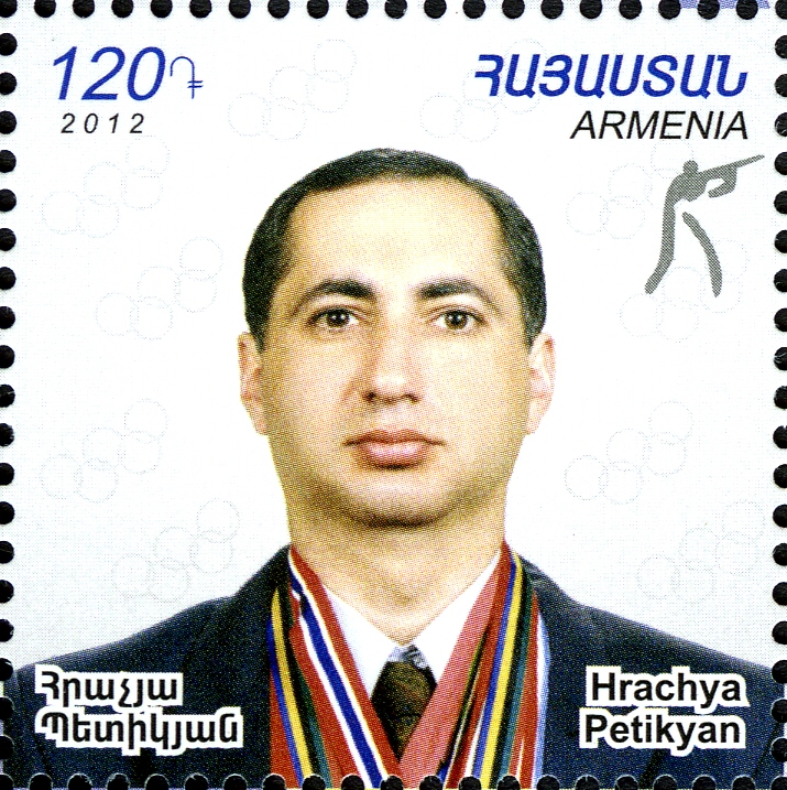 Sport - Olympic Champions - Hrachya Petikyan